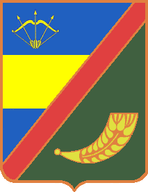 Coat of arms of Bilotserkivskyi Raion, Ukraine.